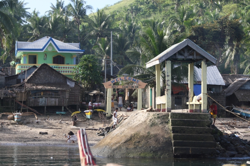 View of Cabiton-an port area from incoming ferry.